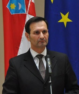 Miro Kovač, Croatian Minister of Foreign and European Affairs